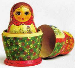 Recursive Matrena 01